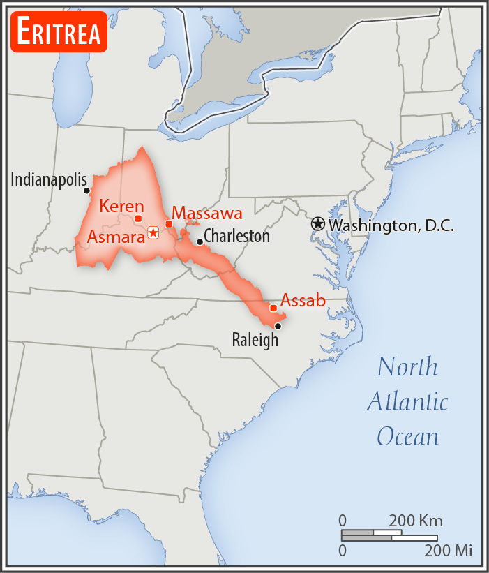 Comparison of the areas of two country. The area of Eritrea with biggest cities (red) overlay the area of the United States of America (gray background).